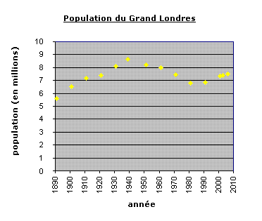 Population Grand Londres